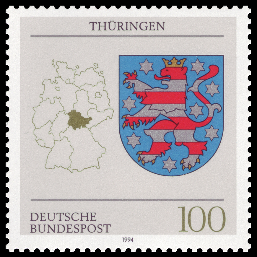 Coats of arms of the 16 states of Germany Ausgabepreis: 100 Pfennig First Day of Issue / Erstausgabetag: 8. September 1994 Michel-Katalog-Nr: 1716 Designer: Jünger